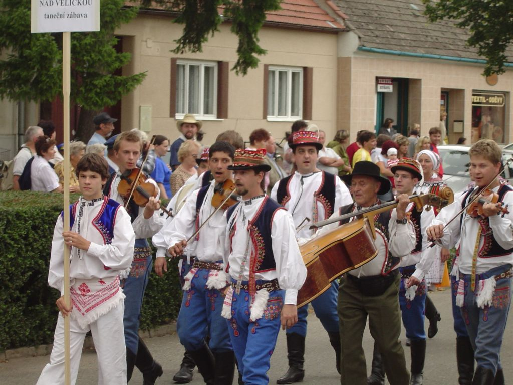 Traditional folk musicians from Velka nad Velickou